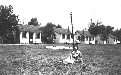 A guest sits on the grass before the cabins at the Birdseye Center Cabin Park, named after Canadian cartoonist Jimmy Frise's comic strip Birdseye Center.